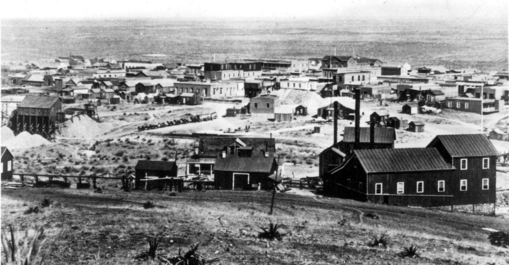 Tombstone, Arizona in 1881 photographed by C. S. Fly. An ore wagon at the center of the image is pulled by 15 or 16 mules leaving town for one of the mines or on the way to a mill. The town had a population of about 4,000 that year with 600 dwellings and two church buildings. There were 650 men working in the nearby mines. The Tough Nut hoisting works are in the right foreground. The firehouse is behind the ore wagons, with the Russ House hotel just to the left of it. The dark, tall building above the Russ House is the Grand Hotel, and the top of Schieffelin Hall (1881) is visible to the right.